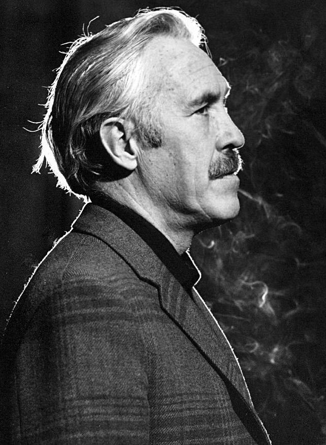 Publicity photo of Jason Robards